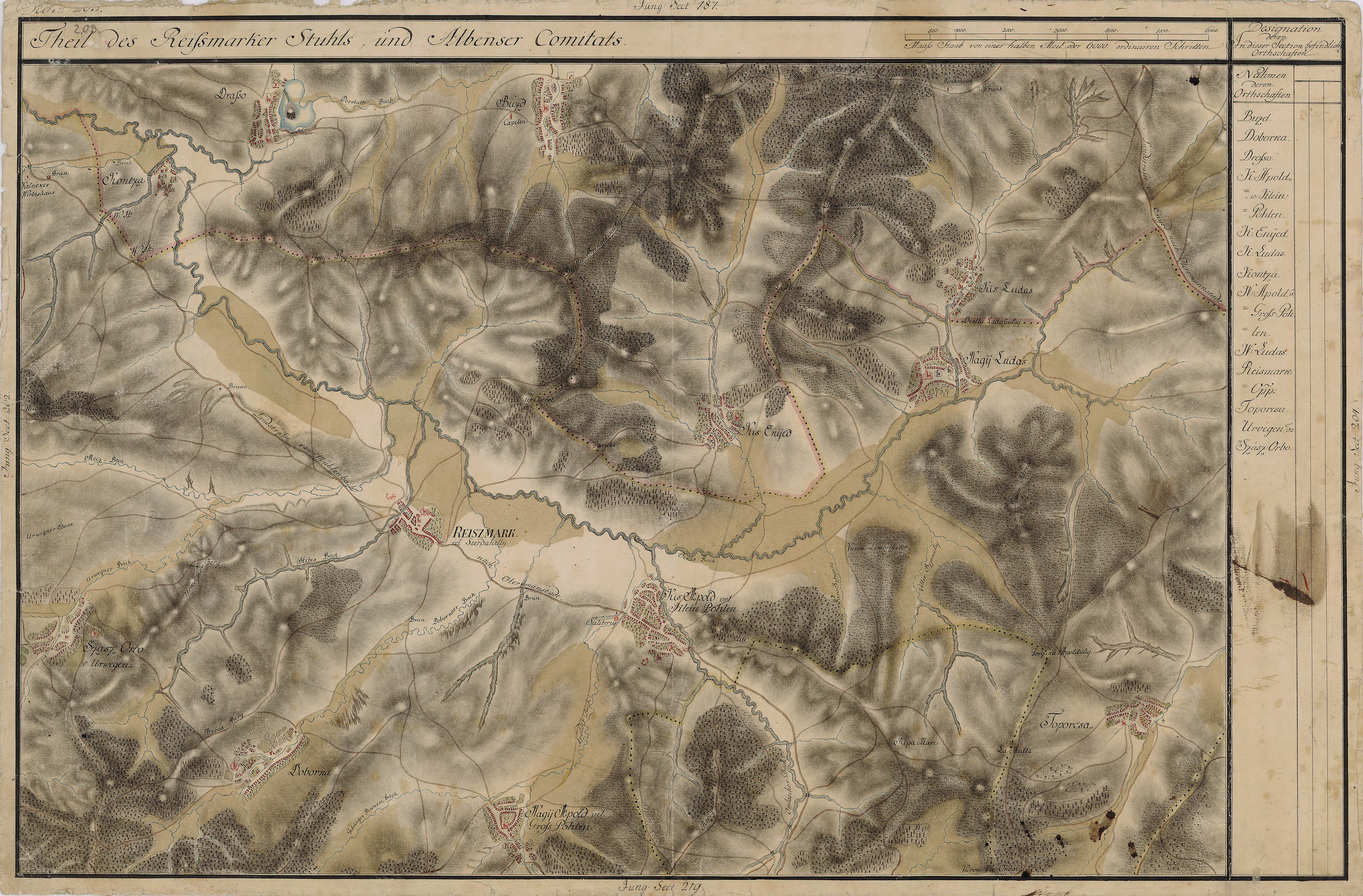 Grand Duchy of Transylvania, 1769-1773. Josephinische Landaufnahme pg.203